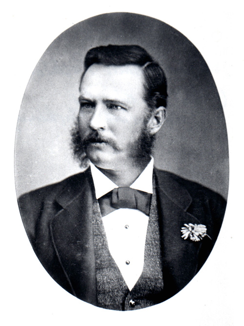 Photograph of Frank Buckland